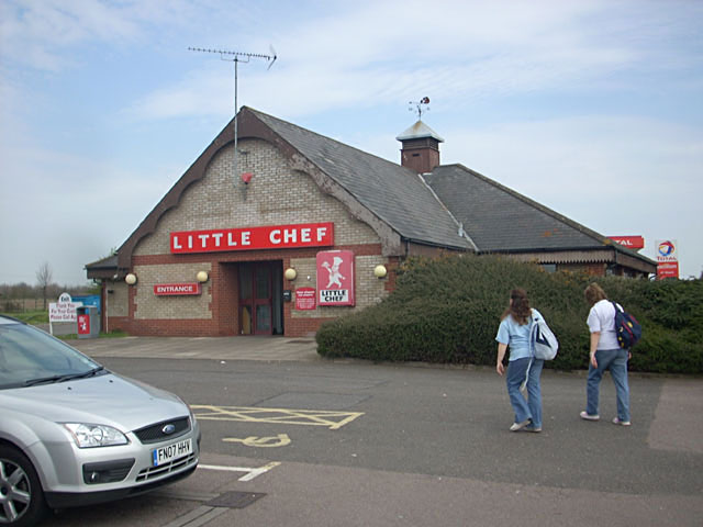 Little Chef at Feering services If you look carefully you can still see the outline of the old Happy Eater signage above the doorway. The weather vane is a bit of a give away too.